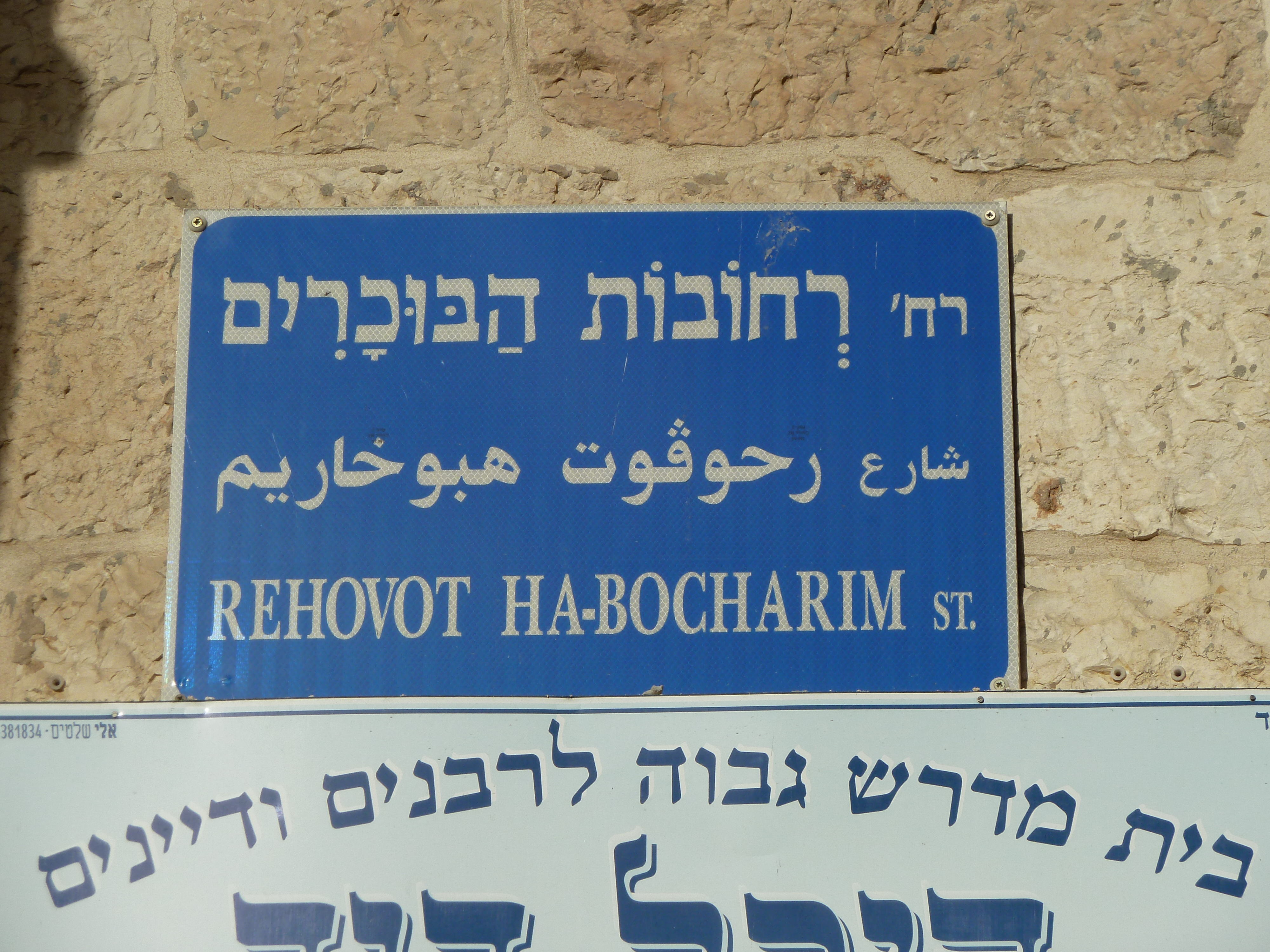 Jerusalem Rehovot Habucharim street Sign (aka David street) in Bukharan Neighborhood